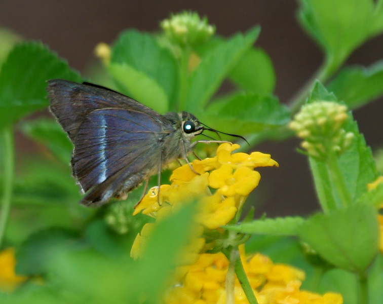 Common Banded Awl Hasora chromus in Hyderabad, India.